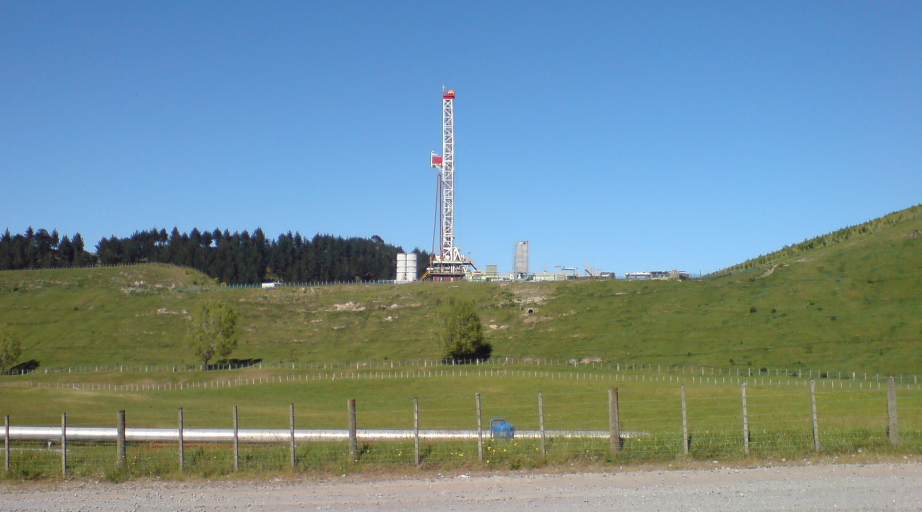 A geothermal drilling rig near Lake Taupo, New Zealand. The region has a long history of gethermal power plants going back almost half a century, and recently, a number of new wells are being dug for large new generation facilities.